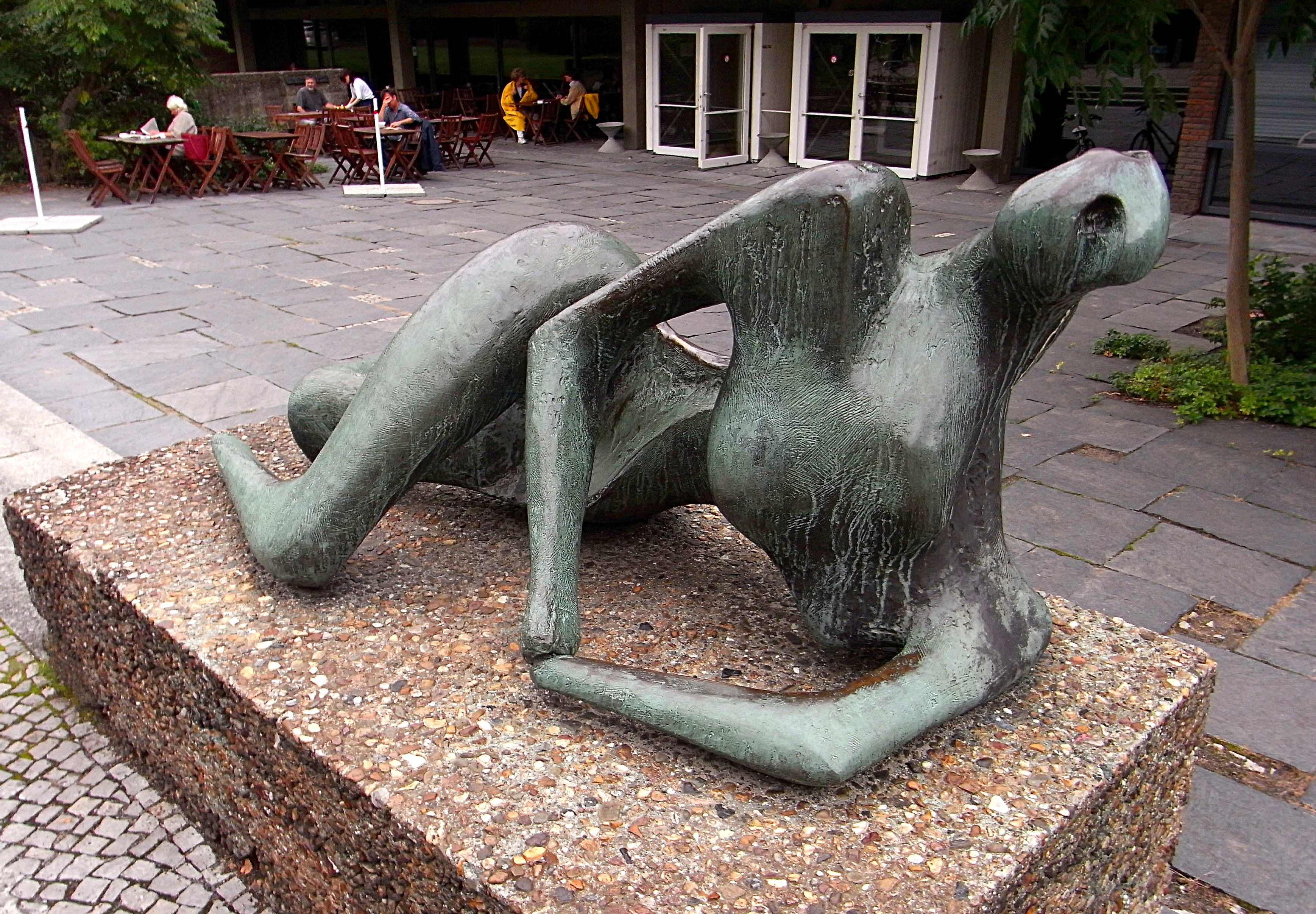 Henry Moore, Reclining figure (1956, erected at this place in 1961), bronze - placed in front of the Acedemy of arts, D-10557 Berlin-Hansaviertel, Hanseatenweg 10